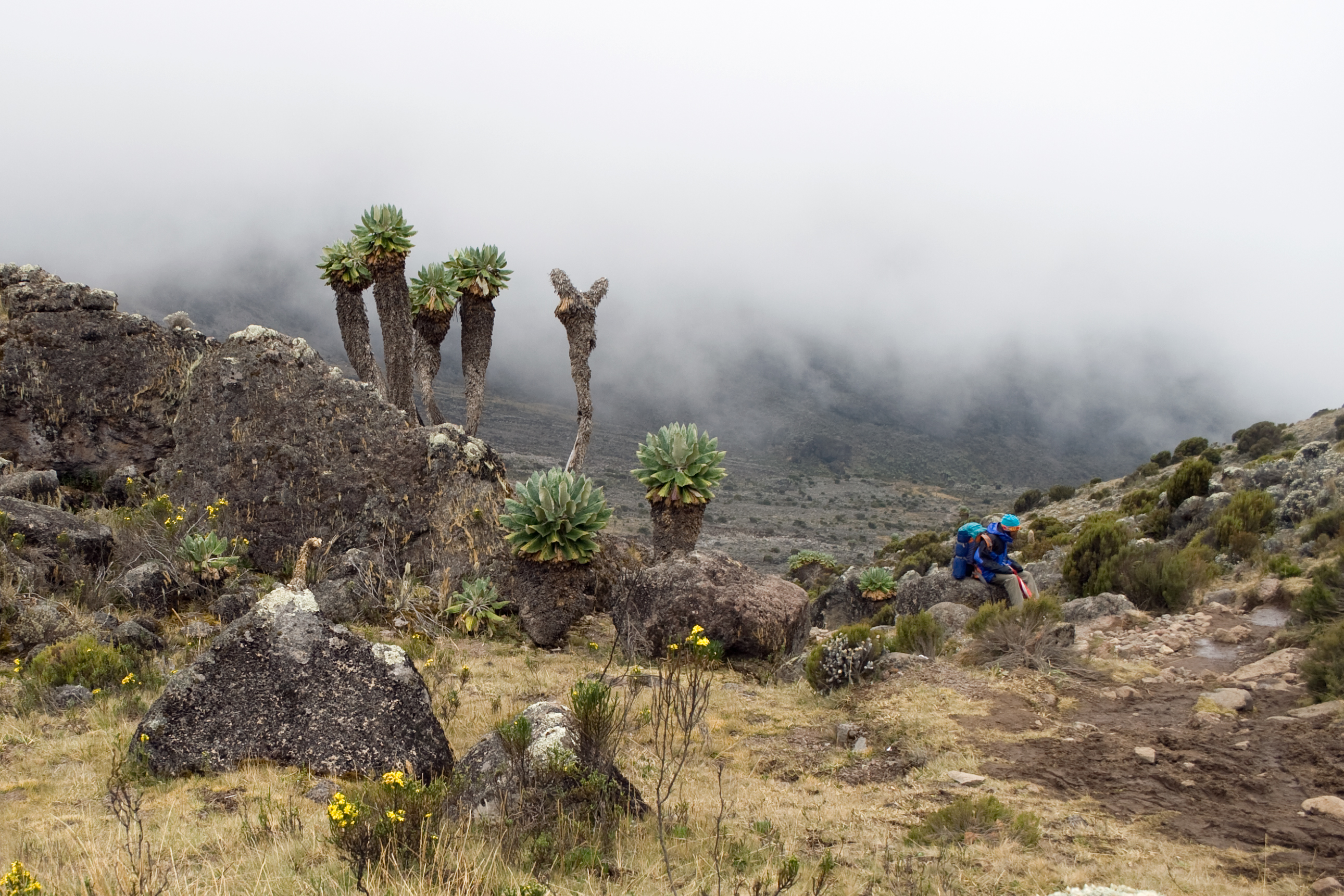 Giant Groundsels trekking Machame-Mweka Route Tanzania